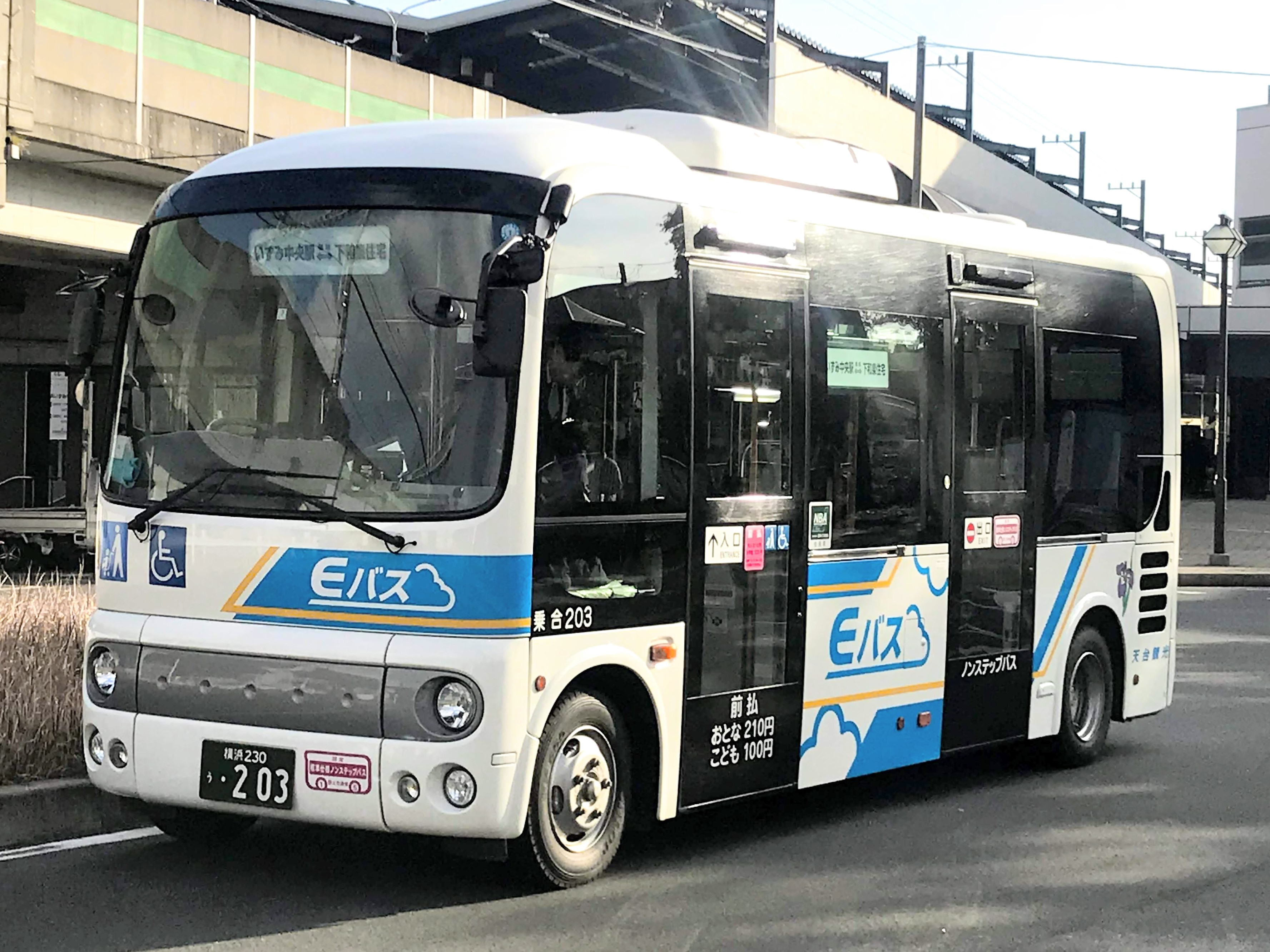 The community bus "E Bus” in Izumi-ku, Yokohama City, Japan. Operated by Tendai Kanko Co., Ltd.